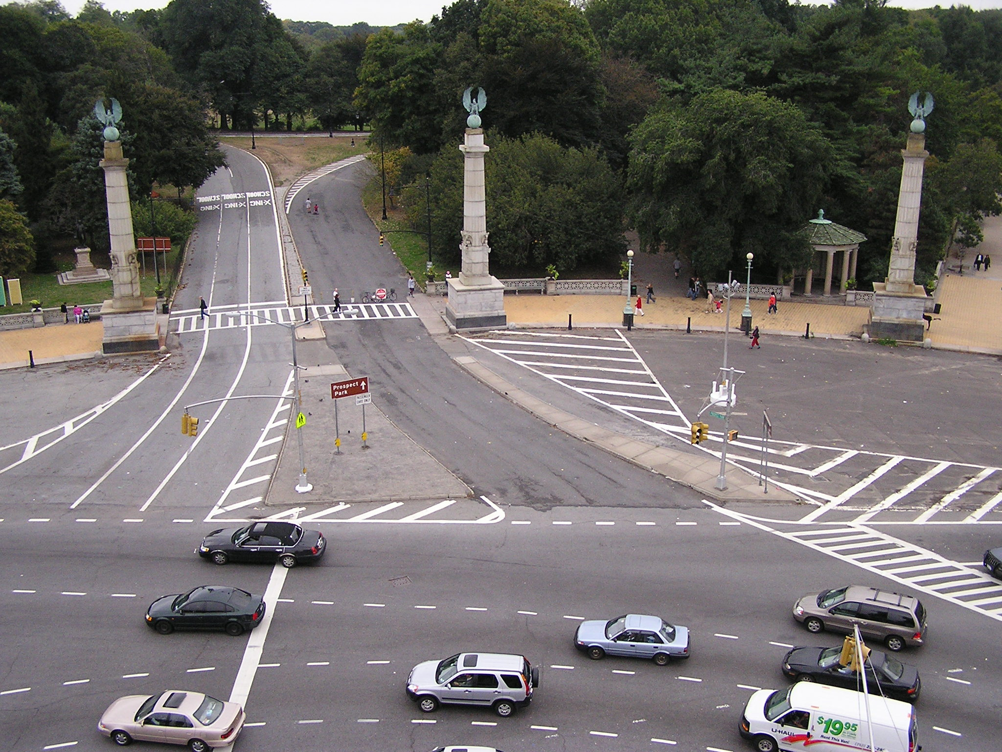 Grand Army Plaza traffic circle, from atop the Soldiers' and Sailors' Memorial Arch (Brooklyn, New York City)